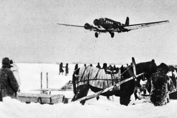 A German Junkers Ju 52 3/m approaching Stalingrad in late 1942